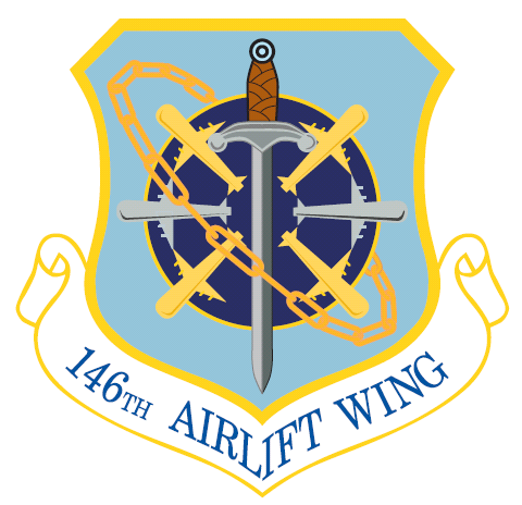 146th Airlift Wing emblem